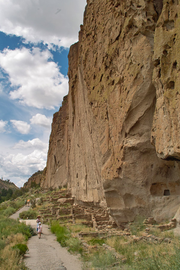 Main south-facing cliff at Bandelier National Monument, showing both cave dwellings and external dwelling ruins. Shot by User:dicklyon in July, 2007, with Sigma SD14. The people are not identifiable, but add some notion of the visitor path in the park.